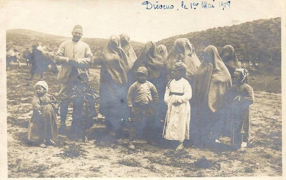 Muslim women in Dreveno in the World War I